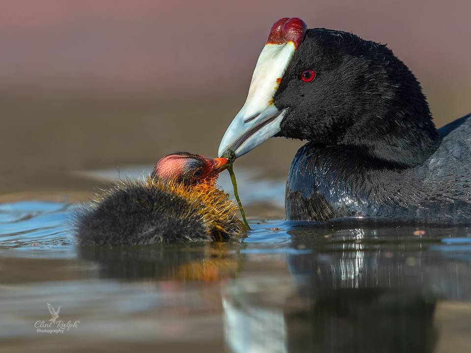 Fulica cristata Gmelin, 1789